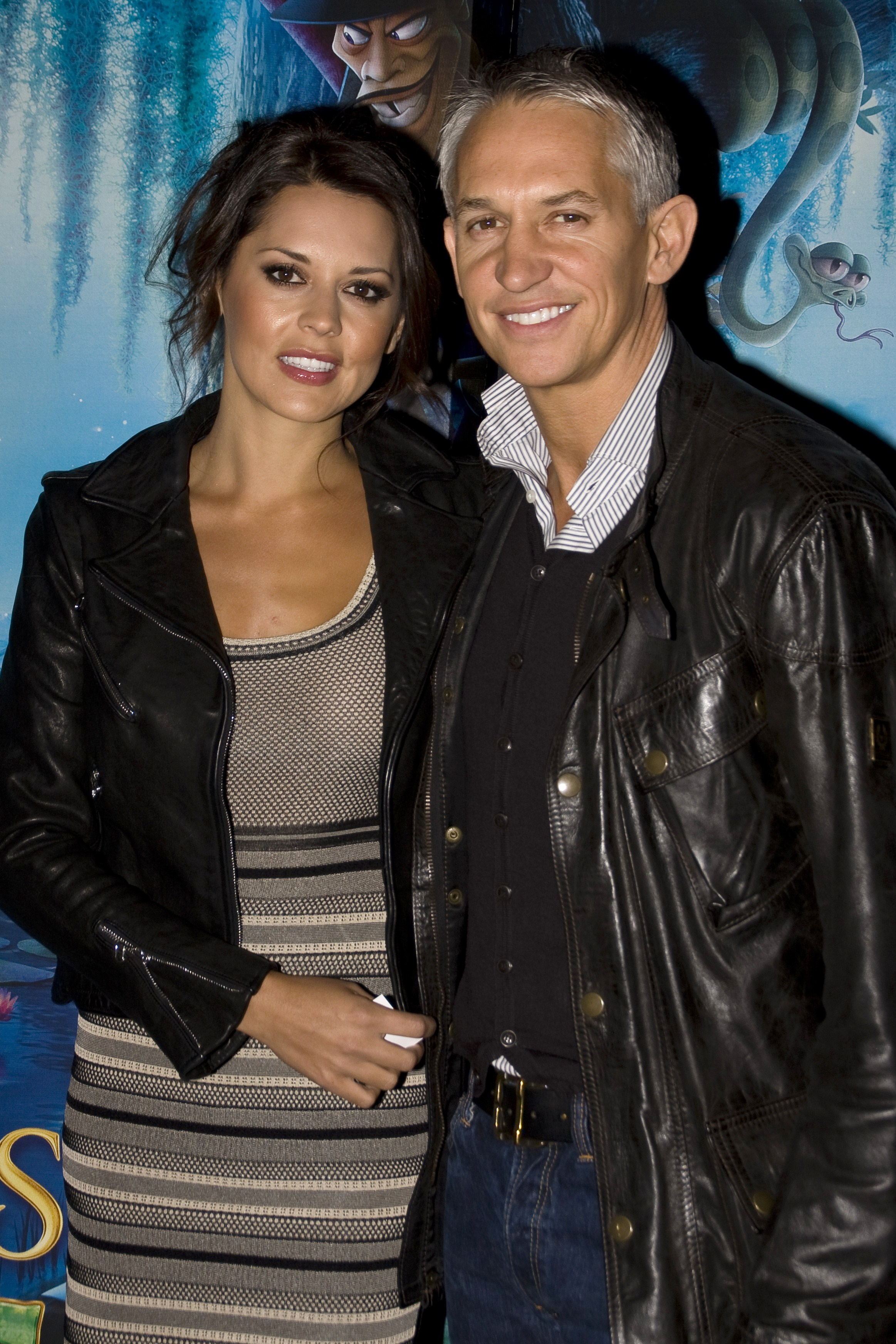 Liton Ali: «I accidentally shut the door on this guy, but he was very nice about it. Mr Lineker's wife looks as amazing in real life as in magazines.»